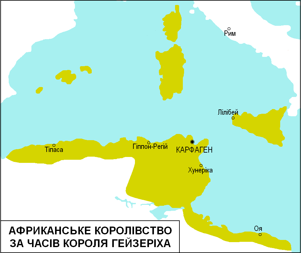 Map of Genseric's African Kingdom (ukrainian)